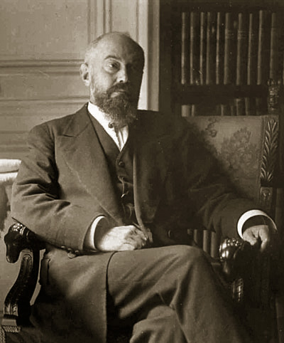 Photograph of the French psychologist Pierre Janet (1859–1947) by Paul François Arnold Cardon a.k.a. Dornac (1858–1941).